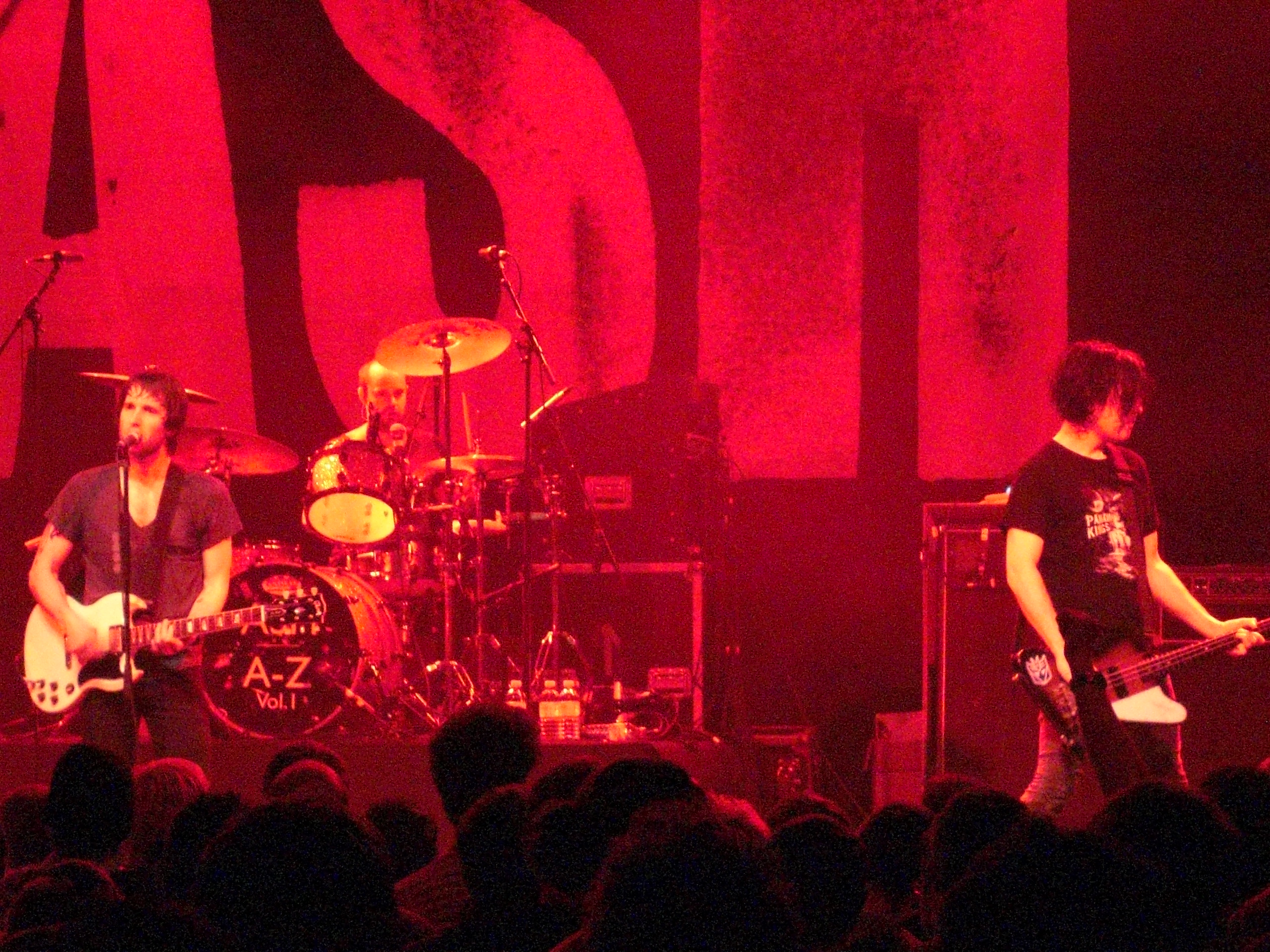 Ash in concert at the O2 ABC in Glasgow on 27 April 2010